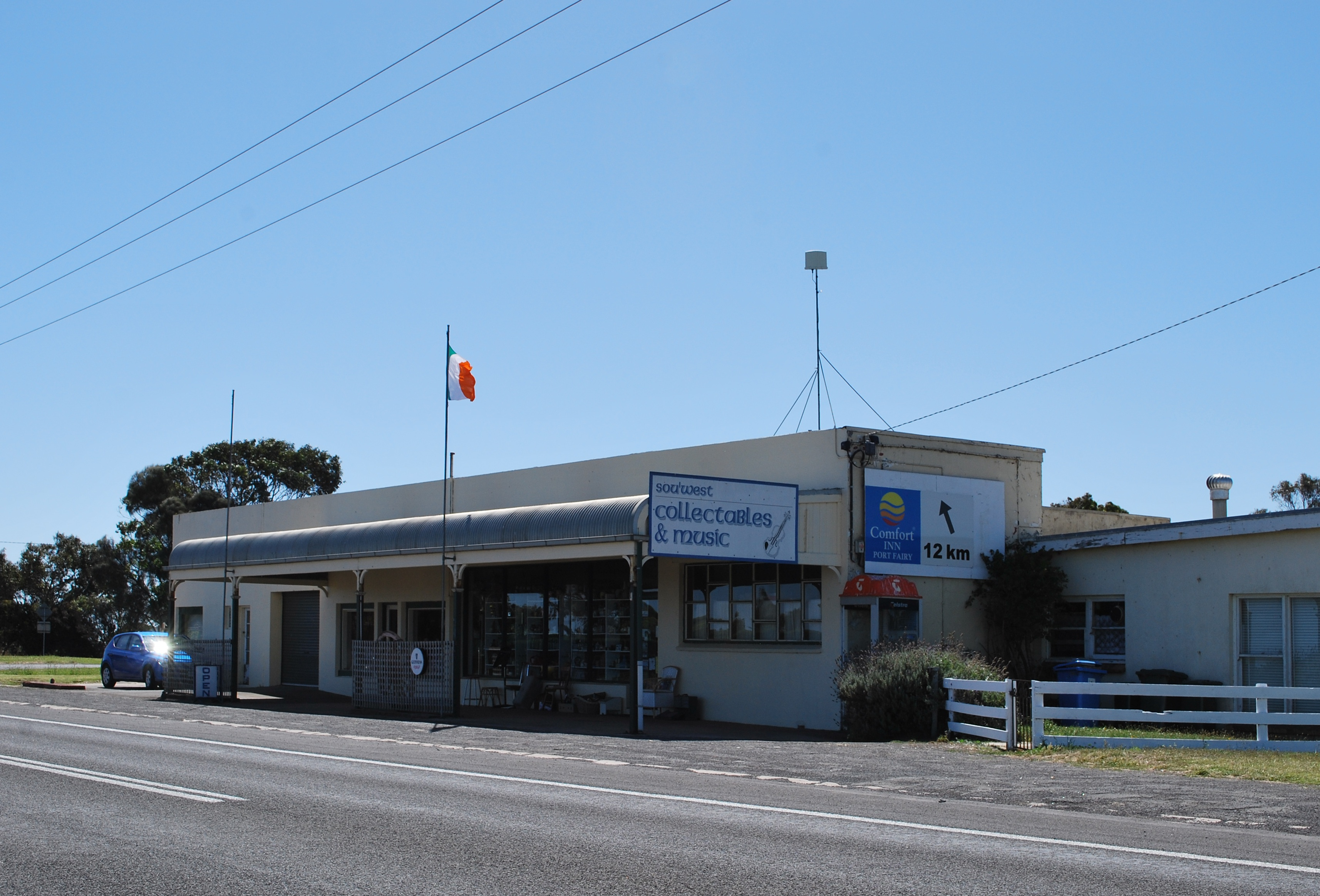 Collectables and music shop in Killarney, Victoria